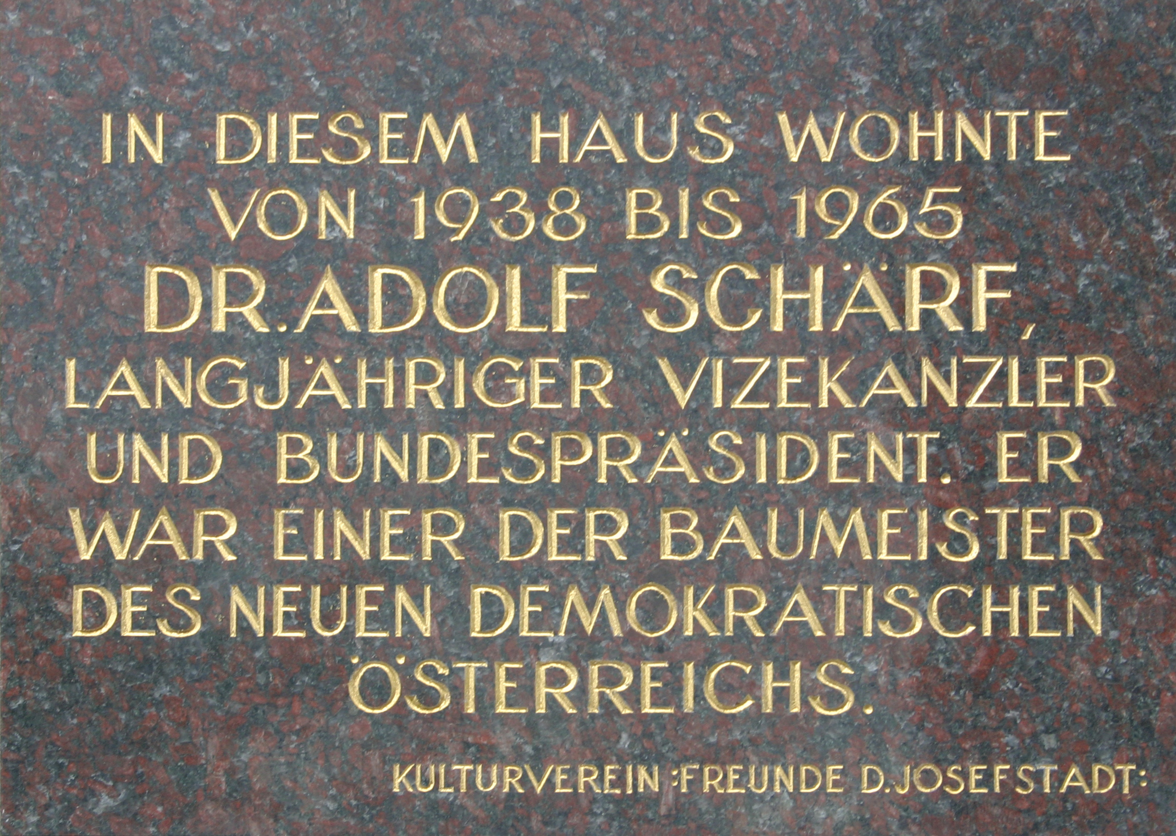 Skodagasse, Vienna